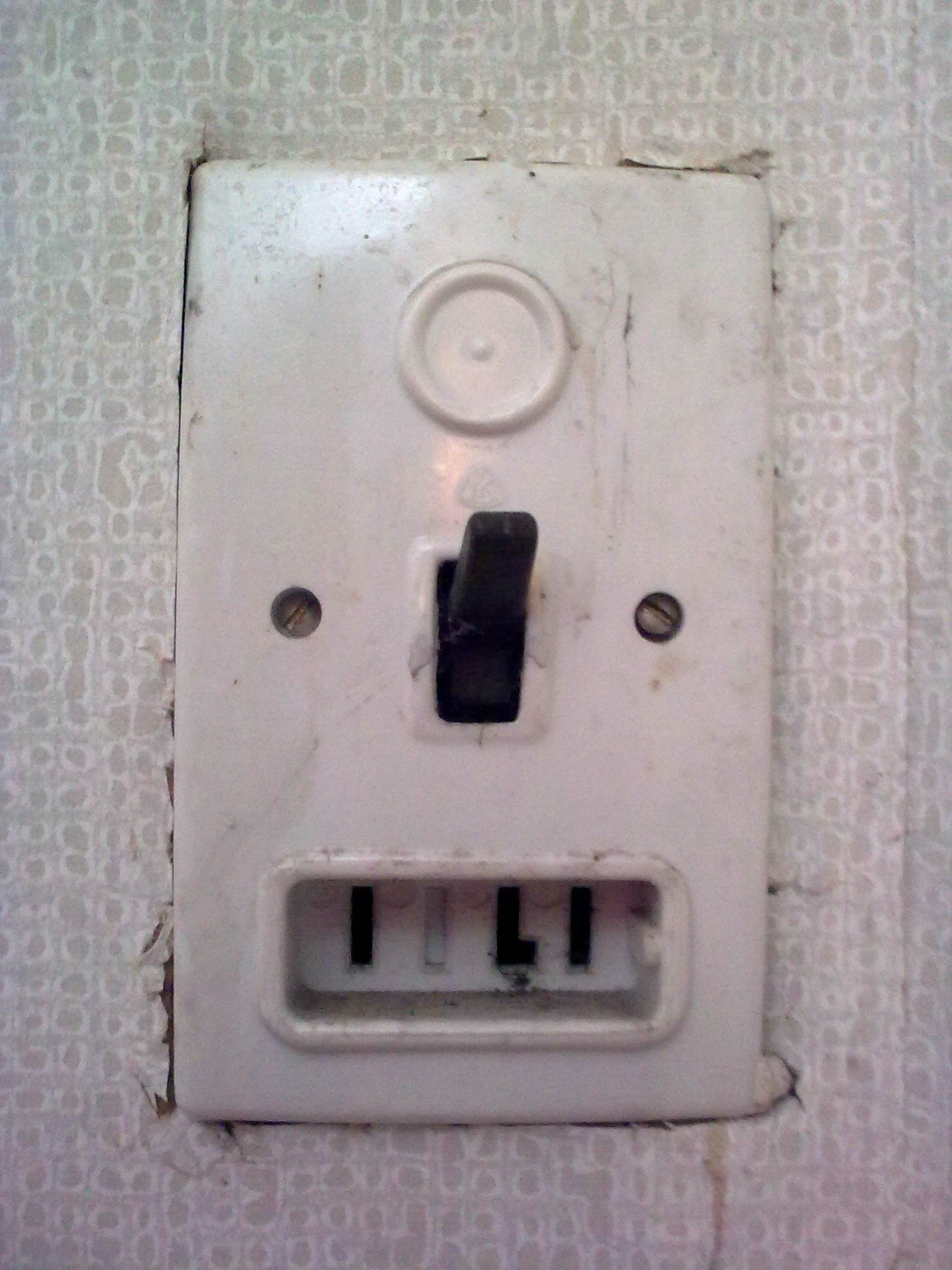 Old danish 380/400 volt 4pin wall outlet